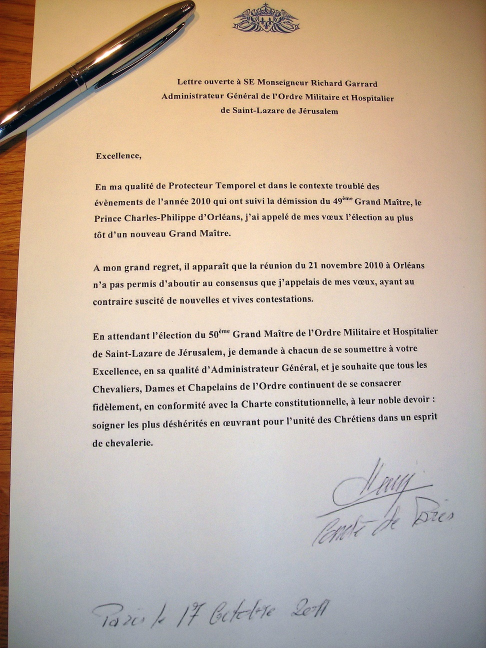 For unification of the Military and Hospitaller Order of Saint Lazarus of Jerusalem and the Fons Honorum guaranteed by HRH Henri, Count of Paris and the Royal House of France.